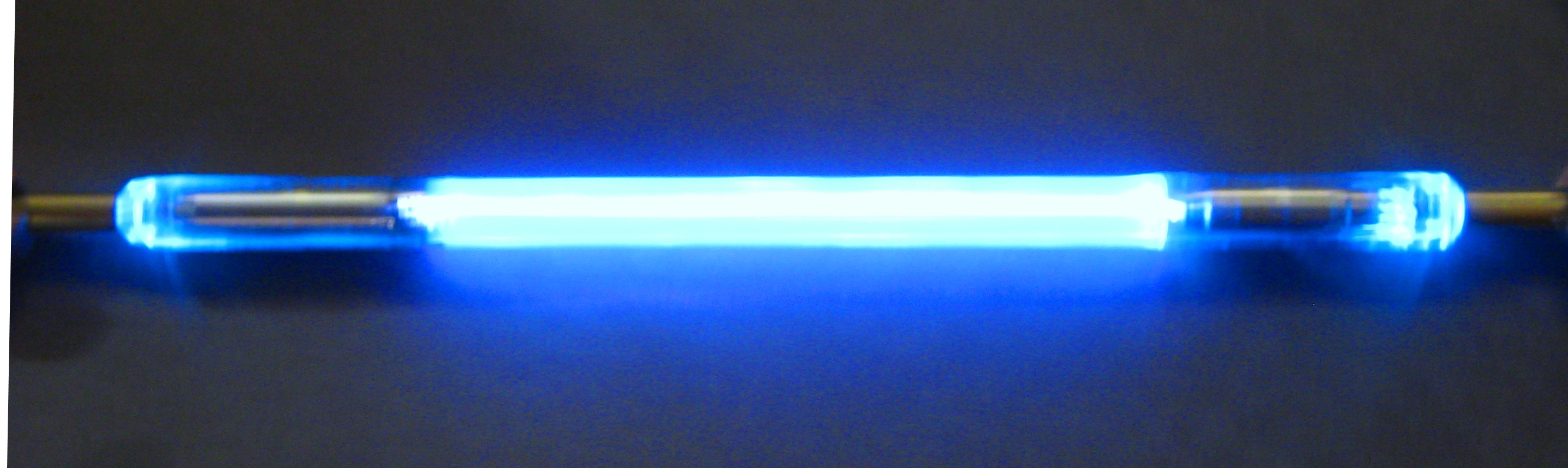 Spectral line radiation from a xenon flashtube operated at high voltage and low current. The tube was under-energized to allow the camera to photograph it unfiltered. Although the greenish-blue arc looks similar to the flash' appearance to the naked eye, the bright blue reflected off the table was not visible. This is caused by the camera being able to image the strong infrared lines around 900 nm,[1] which the camera "sees" as blue.[2]